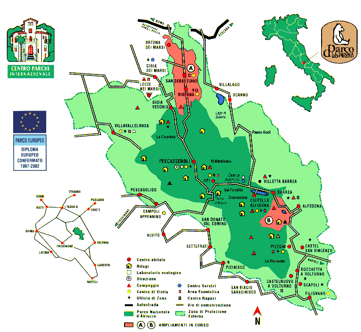 This shows a broad view of the National Abruzzo Park.